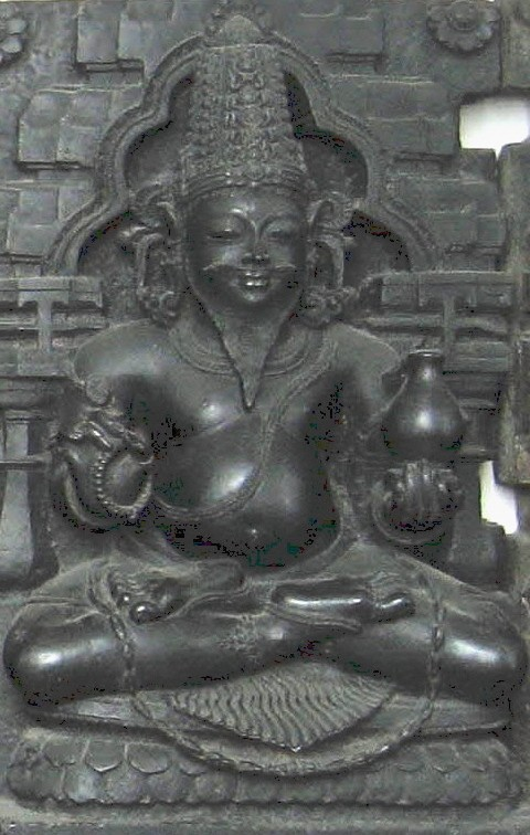 Brihaspati, Hindu god of Jupiter, British Museum sculpture: 13th century, Konark, India